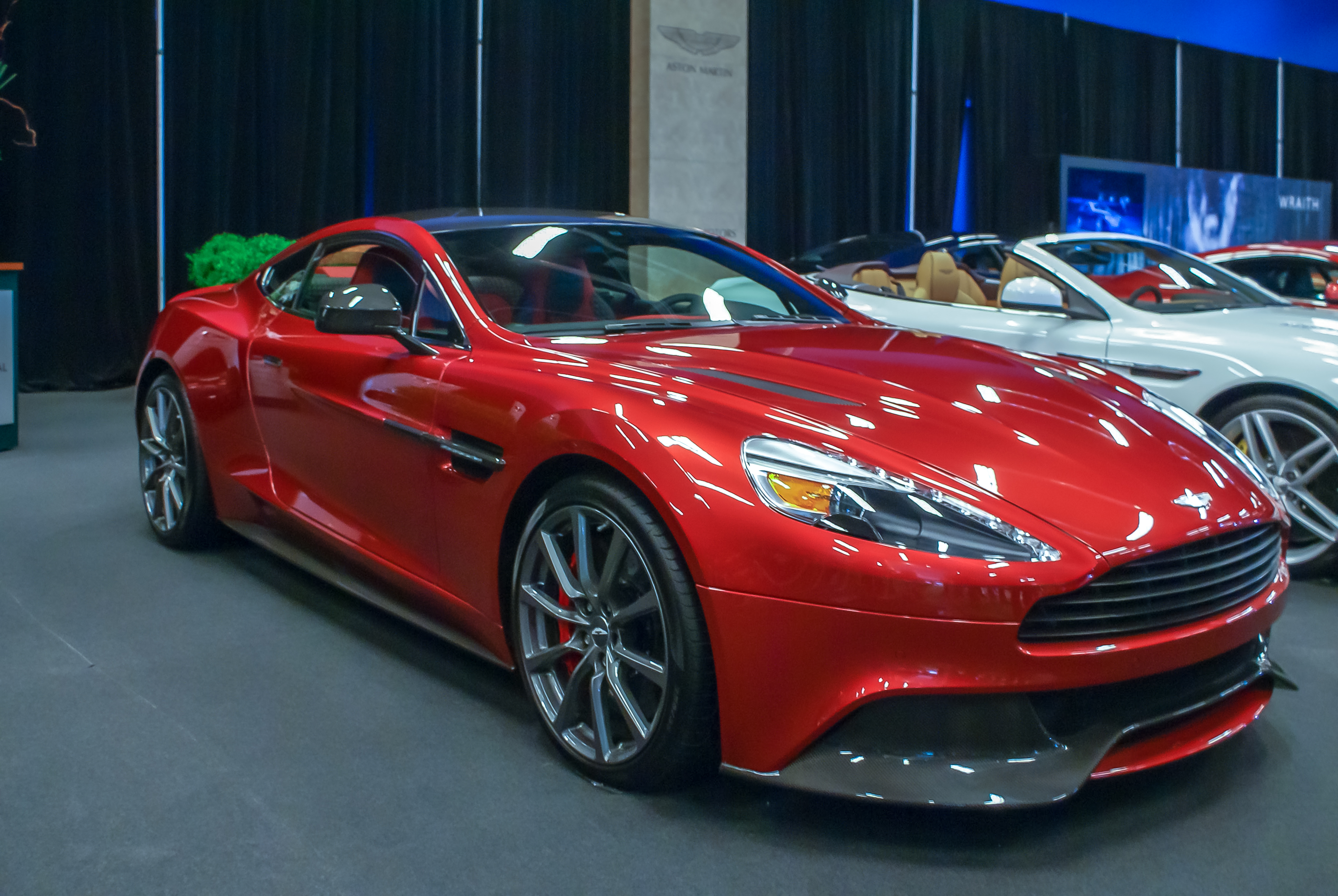 Aston Martin Vanquish at Montreal International Auto Show 2014